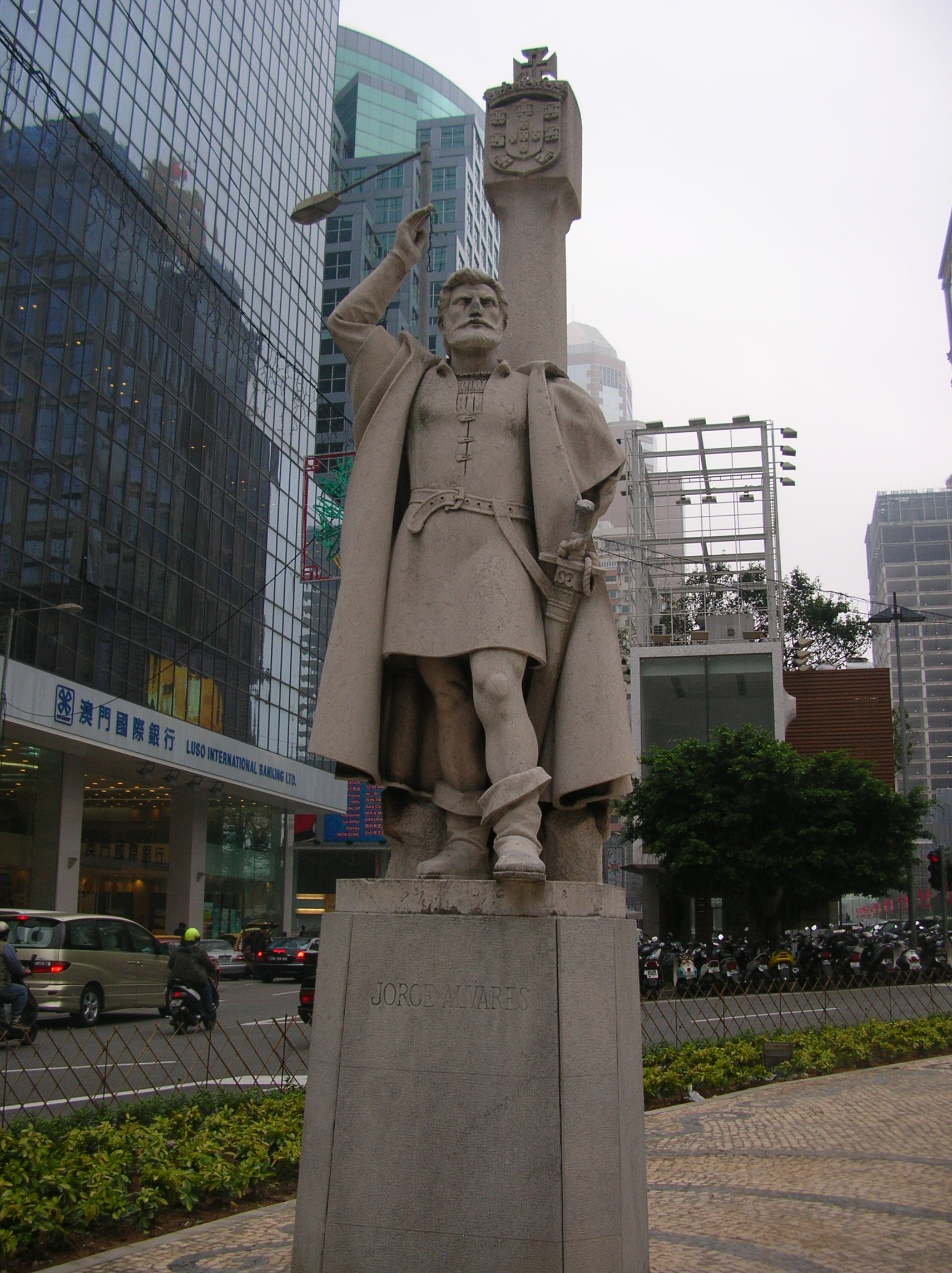 Jorge Álvares statue in Macau